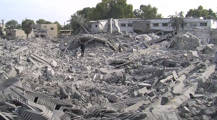 Destruction in Gaza after Israeli bombardment, part of Operation Pillar of Defense